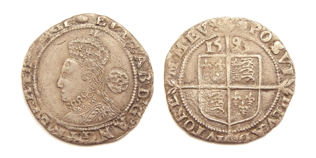 Great Britain, silver Sixpence 1593, Royal mint London (Tower of London). Queen Elizabeth I (1558-1603). Obverse: Within inner beaded circle, crowned bust of Queen Elizabeth, wearing ruff and decorated dress; rose behind. Legend: (mm. tun) ELIZAB D G ANG FR ET HI REGI. Reverse: Within a beaded circle shield quartered with the arms of France (1 & 4) and England (2 & 3), over a long cross fourchee; 1593 above shield. Legend: (mm. tun) POSVI DEV ADIVTOREM MEV (I have made God my helper).